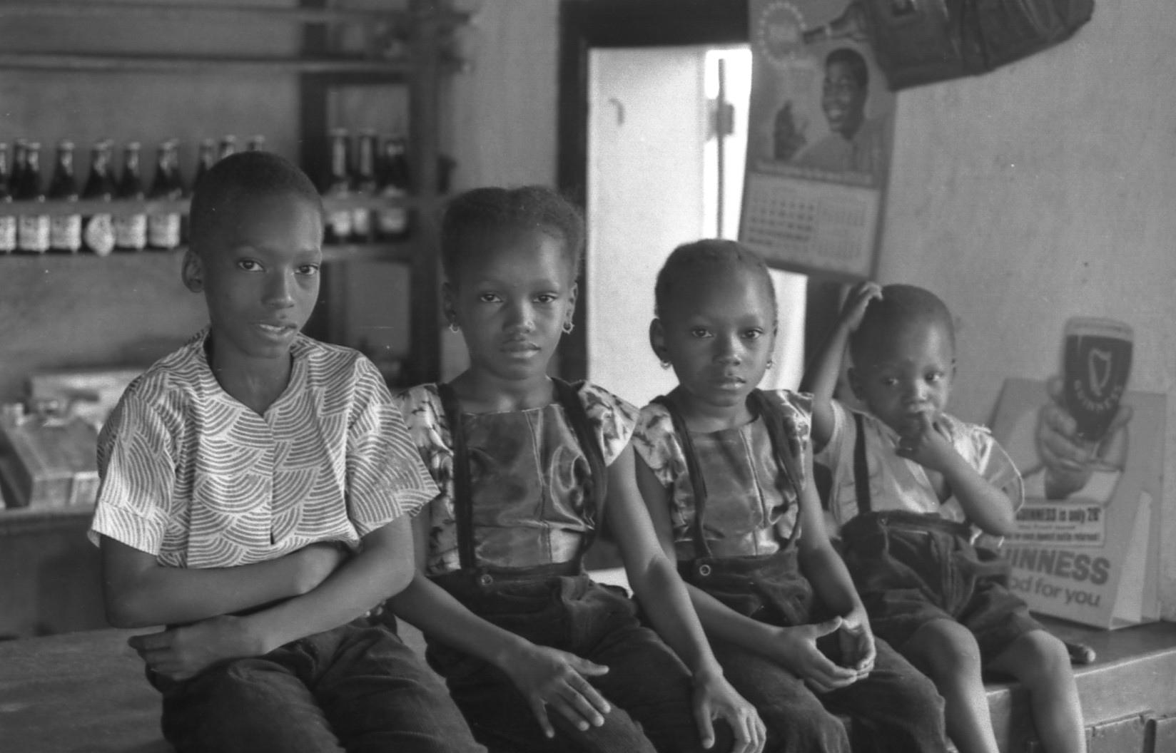 Enfants temne à Kabala, en Sierra Leone : "These are the children of Lansana Kamara, proprietor of a Kabala shop/tavern which acted as a meeting place for local people. He asked me to take a few pictures of his children and this is my favourite. While the photos were being taken, their parents were giving them instructions about how to pose; three of the four were apparently paying attention. His wives got them dressed up very elaborately for the photos and it's a shame that I didn't have colour film at the time. It was probably for the best anyway since the photo shop in Freetown could make black and white prints, but sent colour film to Italy for processing, which took quite a while and was sometimes lost in the mail. The photo was taken sometime in 1967 or 1968."